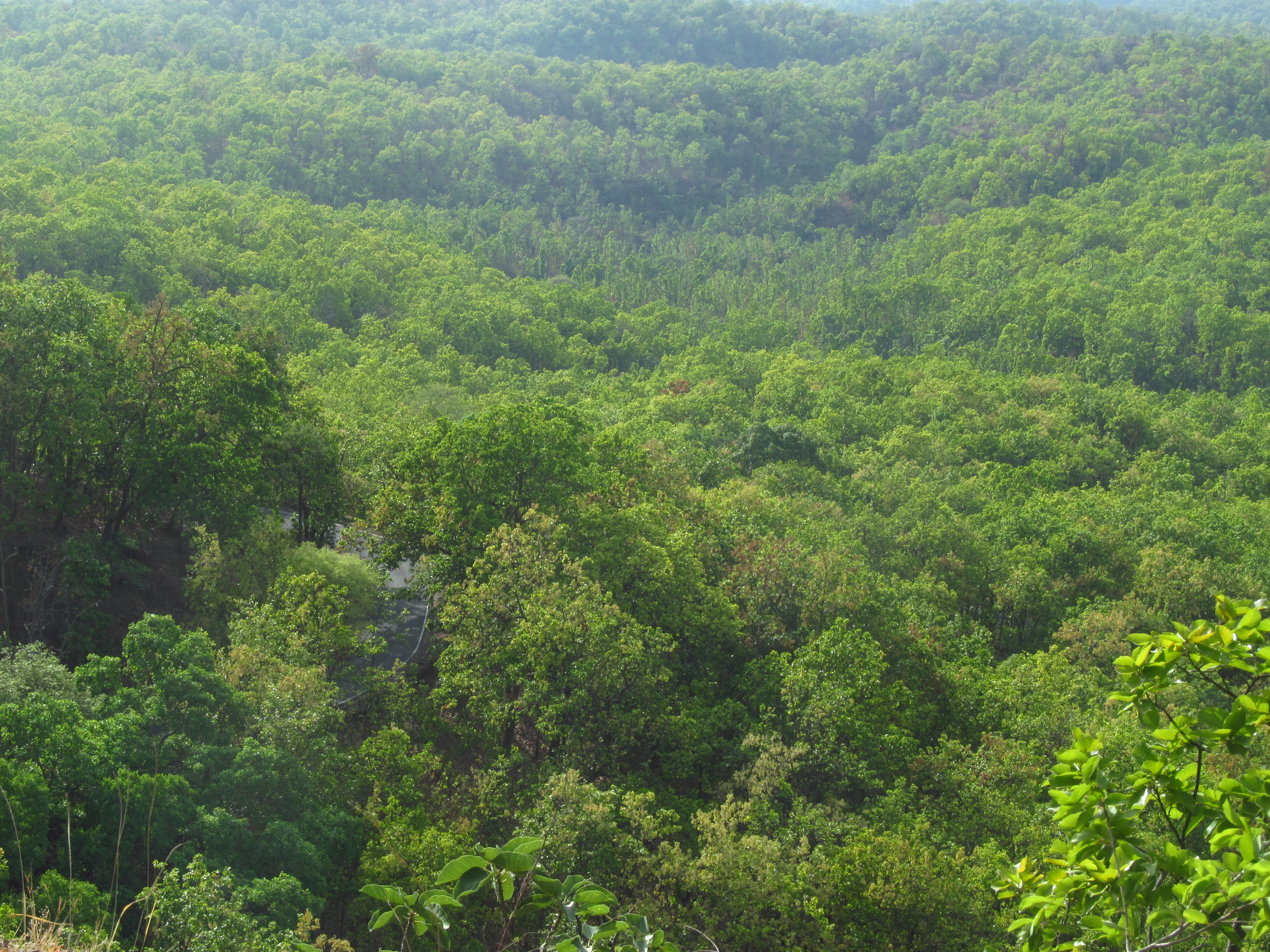 Thick forest of Panchmarhi Biosphere Reserve near Rajendragiri